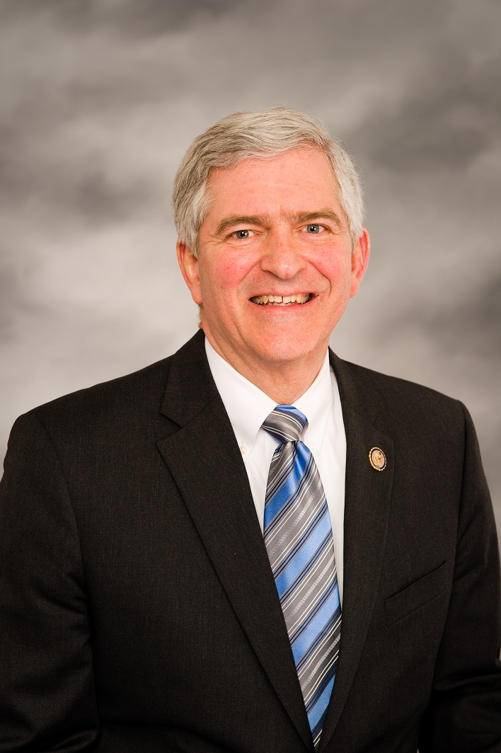 Official portrait of US Rep. Daniel Webster